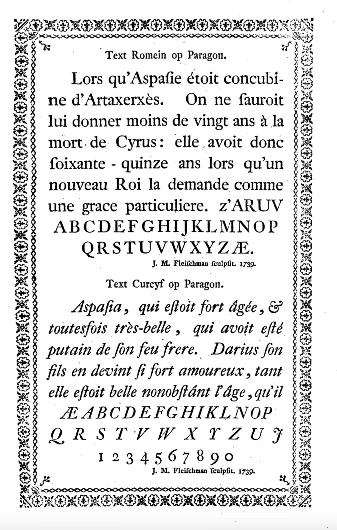 An example of Joan Michaël Fleischman's punch cutting, showcased in the Enschedé specimen of 1768. This image shows his "Paragon" (20pt) size roman and italic.